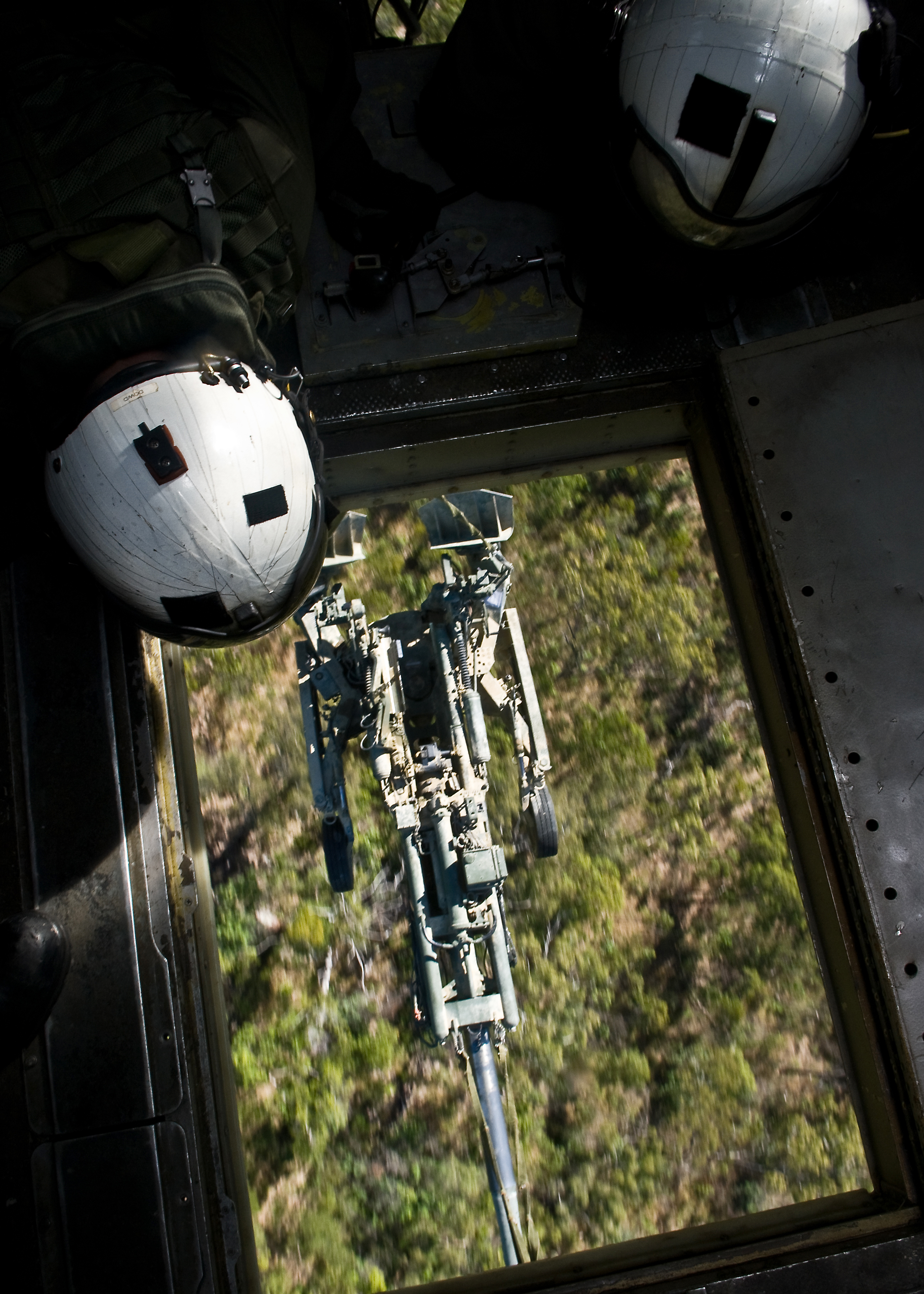 QUEENDSLAND, Australia (July 19, 2009) Marine Staff Sgt. William McGowan, right, and Marine Cpl. Thomas Down, both assigned to Marine Medium Helicopter Squadron (HMM) 262, look down through the "hell hole" in the belly of a CH-53E "Sea Stallion" helicopter while transporting an M777 155-mm Howitzer during an artillery airlift exercise. The 31st MEU and HMM-262 are embarked aboard the forward-deployed amphibious assault ship USS Essex (LHD 2). Essex is participating in exercise Talisman Saber 2009, a biennial, joint, combined exercise sponsored by U.S. Pacific Command and the Australian Defense Force. (U.S. Navy photograph by Mass Communication Specialist 2nd Class Gabriel S. Weber/Released)